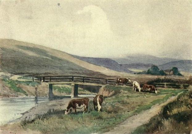 On the Clywedog river (Wales)